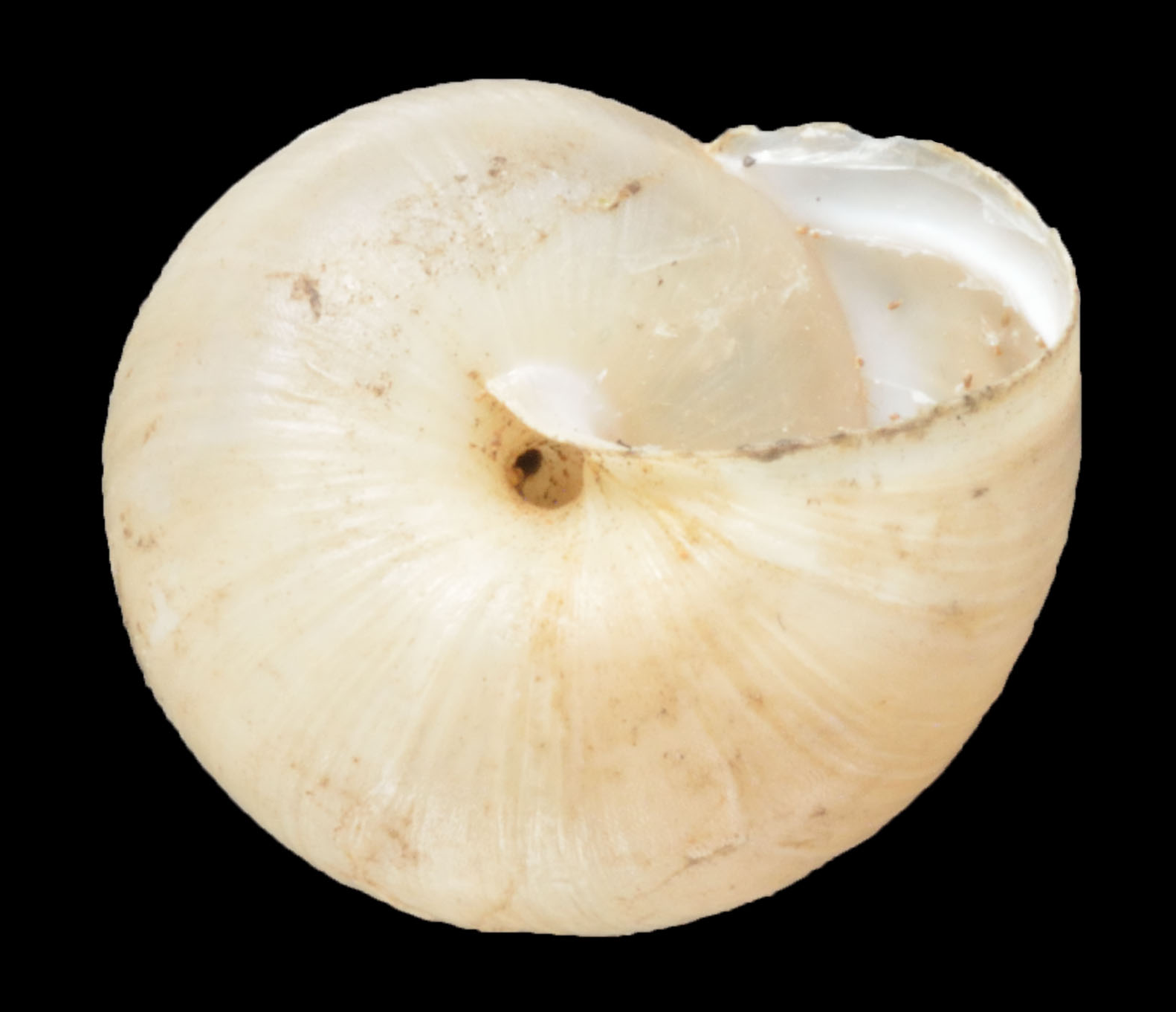 Photo of an umbilical view of a shell of Harmozica ravergiensis from a waste bank of Kalinin mine (Makiivka), Ukraine. Width of the shell is 12 mm.